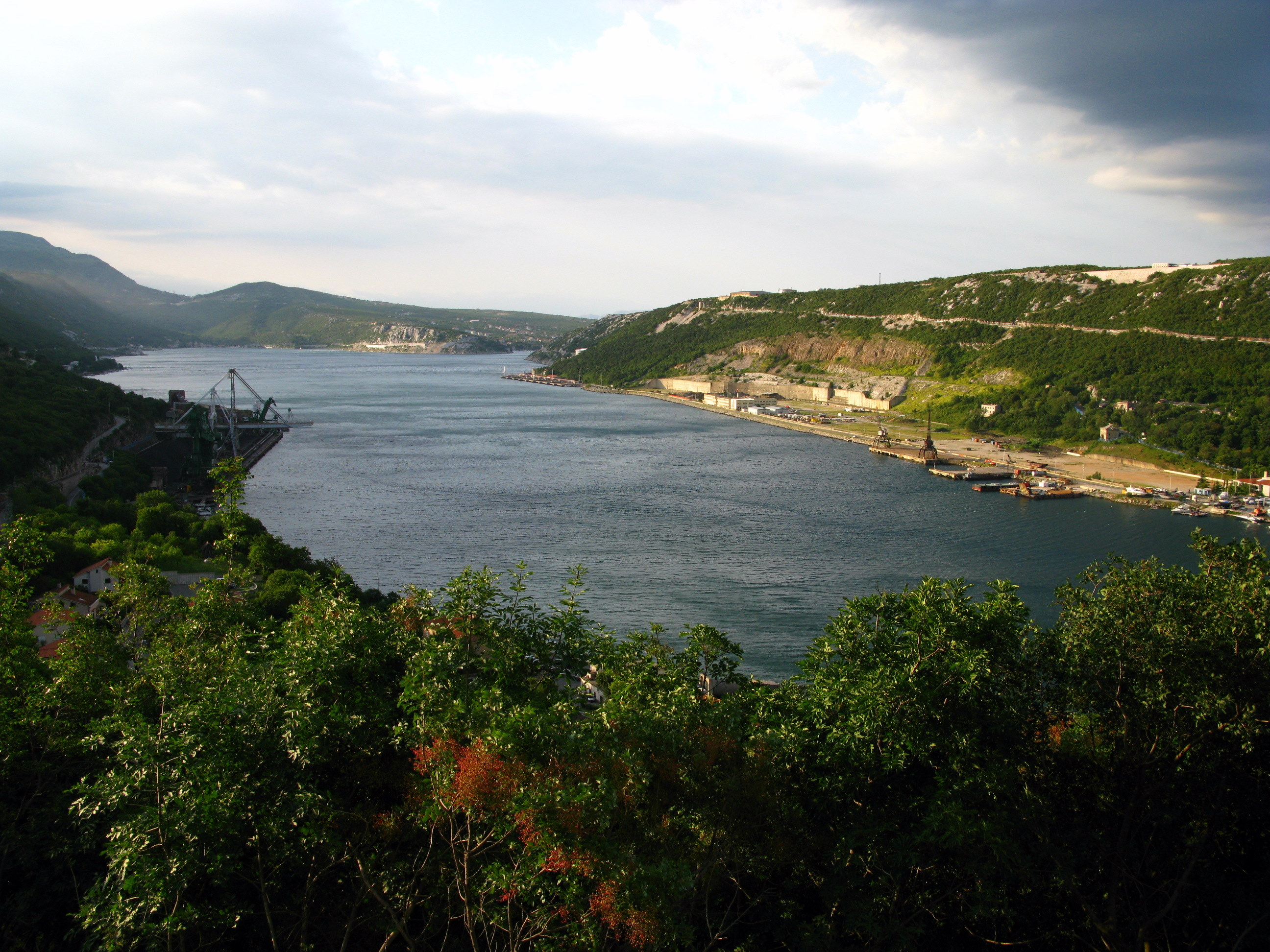 Bay of Bakar / Croatia / Adriatic Sea.